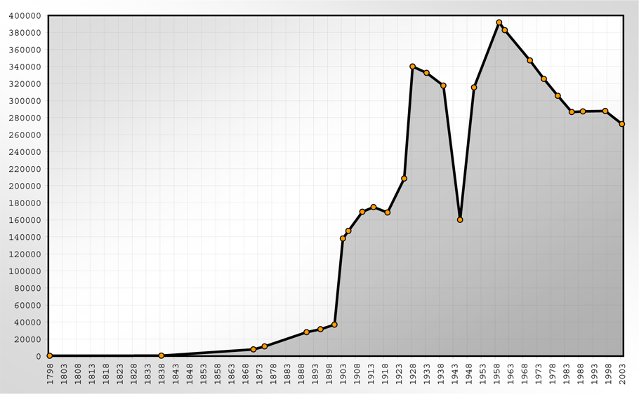 This image shows the population statistics of Gelsenkirchen (Germany).